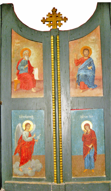 Royal Doors in Saint George Church in Gradishte